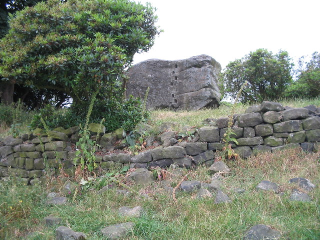 The Andle Stone. The Andle Stone is a huge natural boulder which may have been significant in neolithic times. There are ancient rock carvings on the top, victorian tributes to military leaders on the back and footholes carved in the face to allow (easier) access to the views from the top